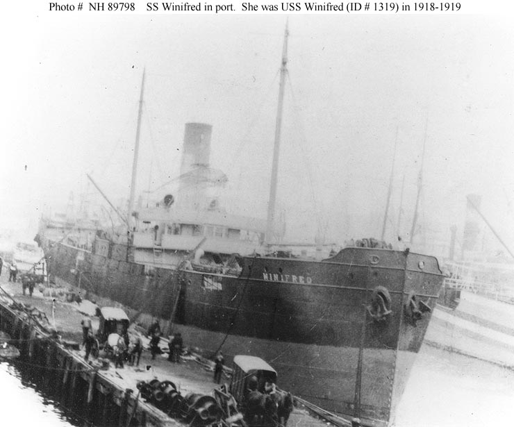 Commercial steamer SS Winifred in Europe prior to her United States Navy service as USS Winifred (ID-1319). She served as a cargo ship and oil tanker while in commercial service.